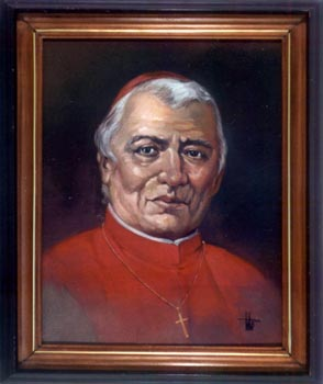 A portrait of Archbishop Pedro de la Santisima Trinidad (1690 - 1755). Santisima Trinidad was Archbishop of Manila from 1744 untill his death in 1755.